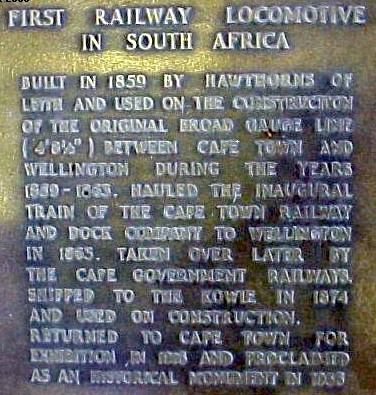 Cape Town Railway & Dock no. 9 (0-4-2WT) PlaqueBuilder's Number: R&W Hawthorn 162Location: Cape Town station